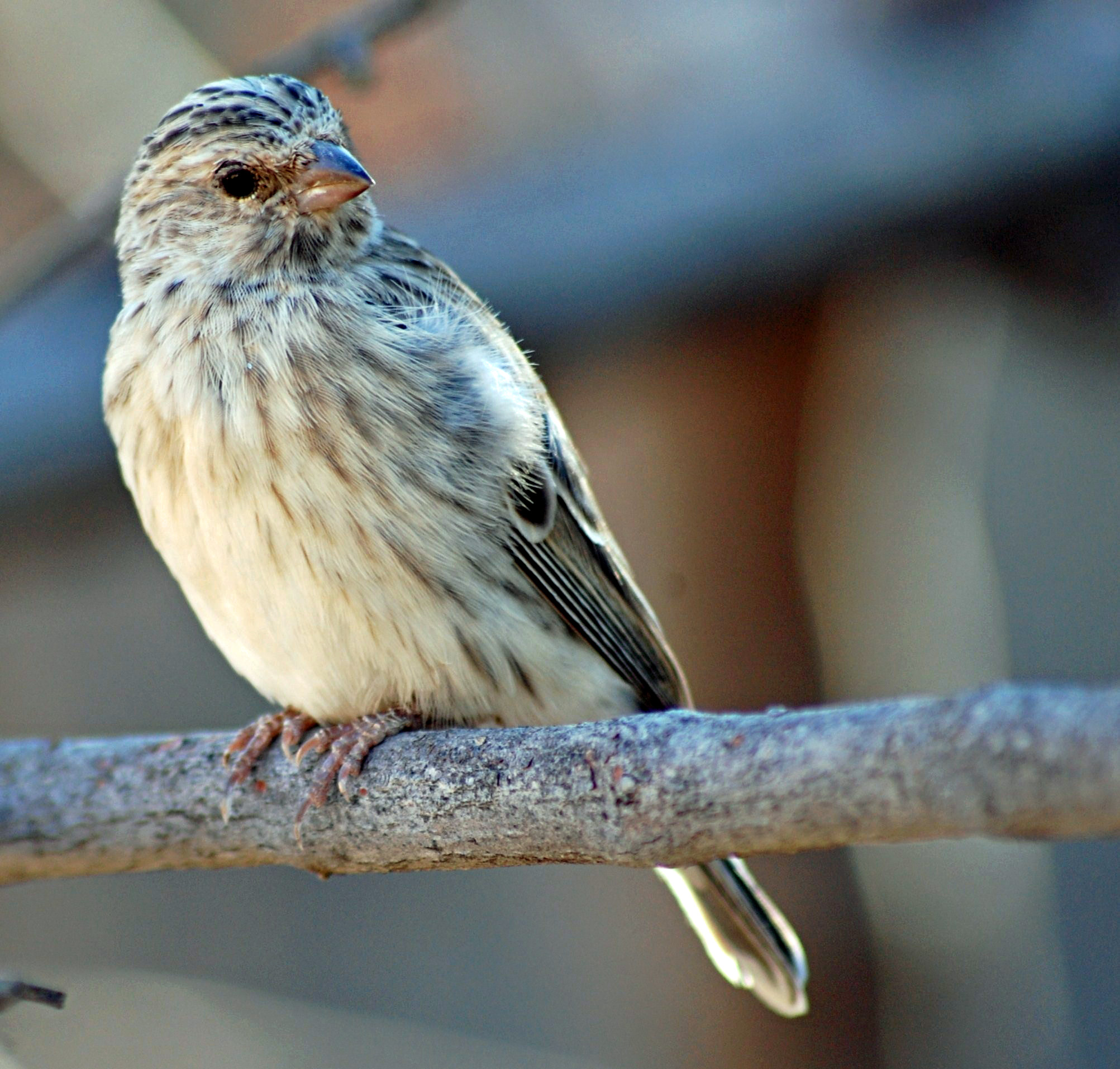 A Yellow-rumped Seedeater (also known as the Black-throated Canary) in Opuwo, Namibia.